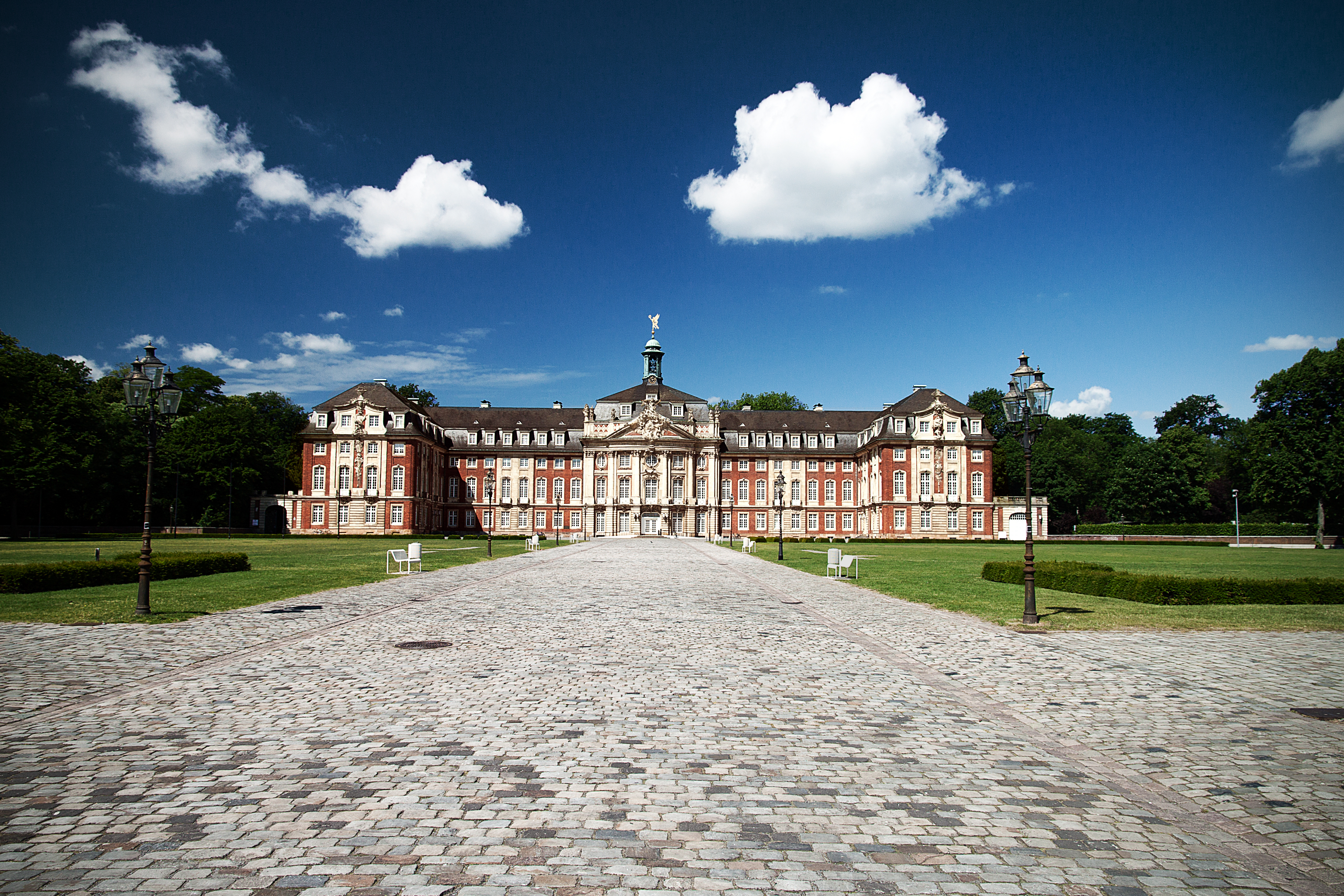 Castillo de la Ciudad